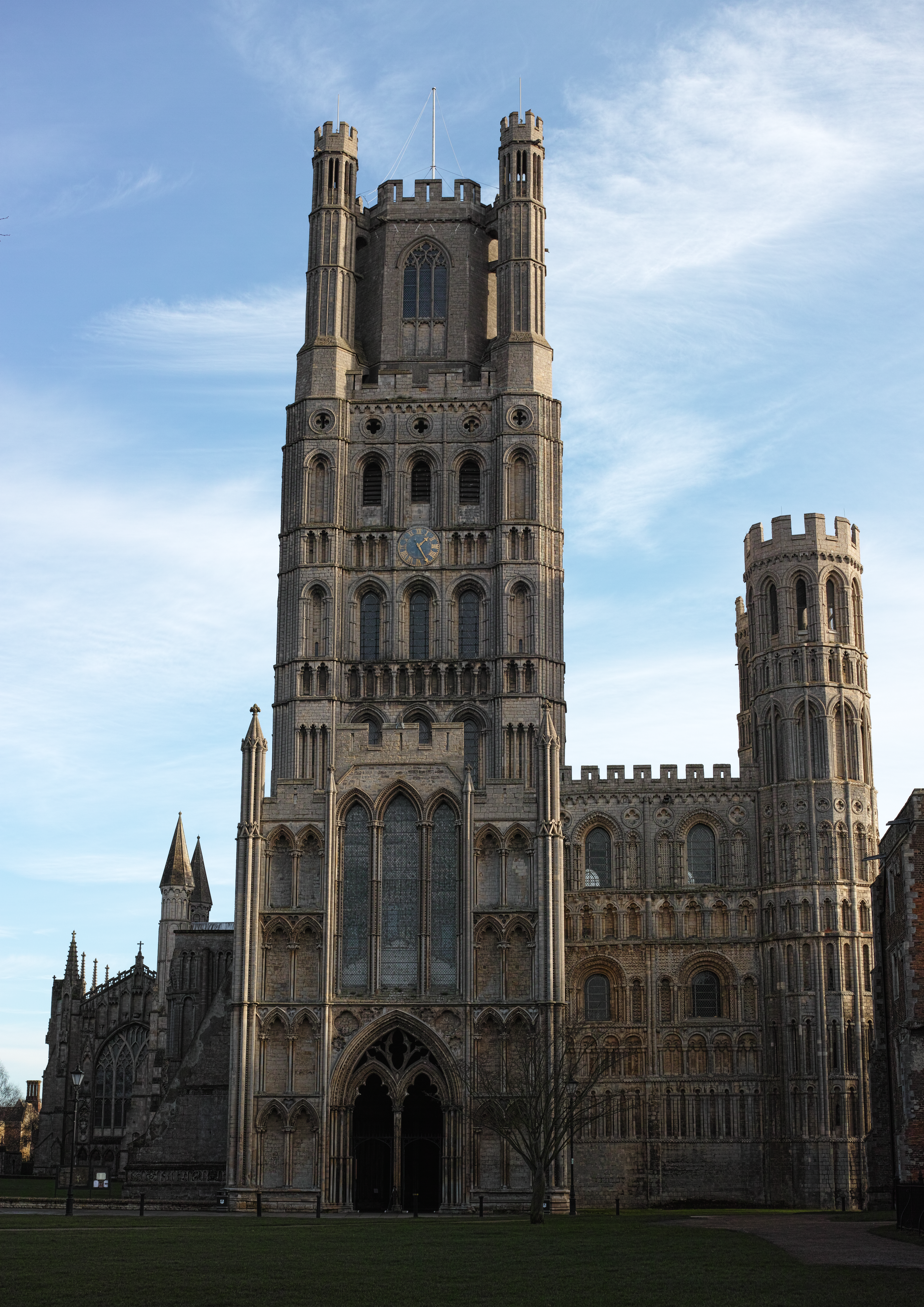 Ely Cathedral as seen from Palace Green